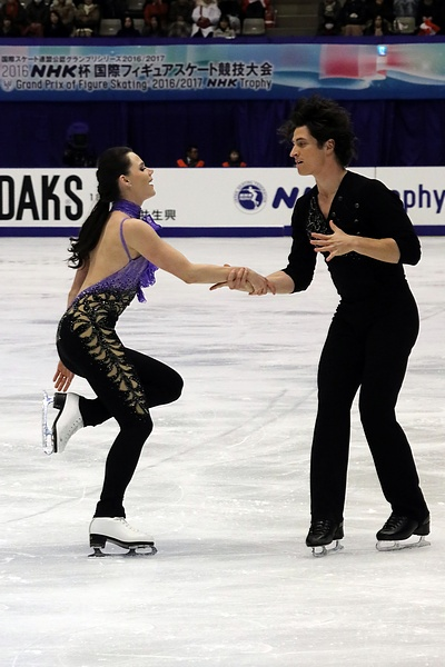 Tessa Virtue and Scott Moir at the 2016 NHK Trophy